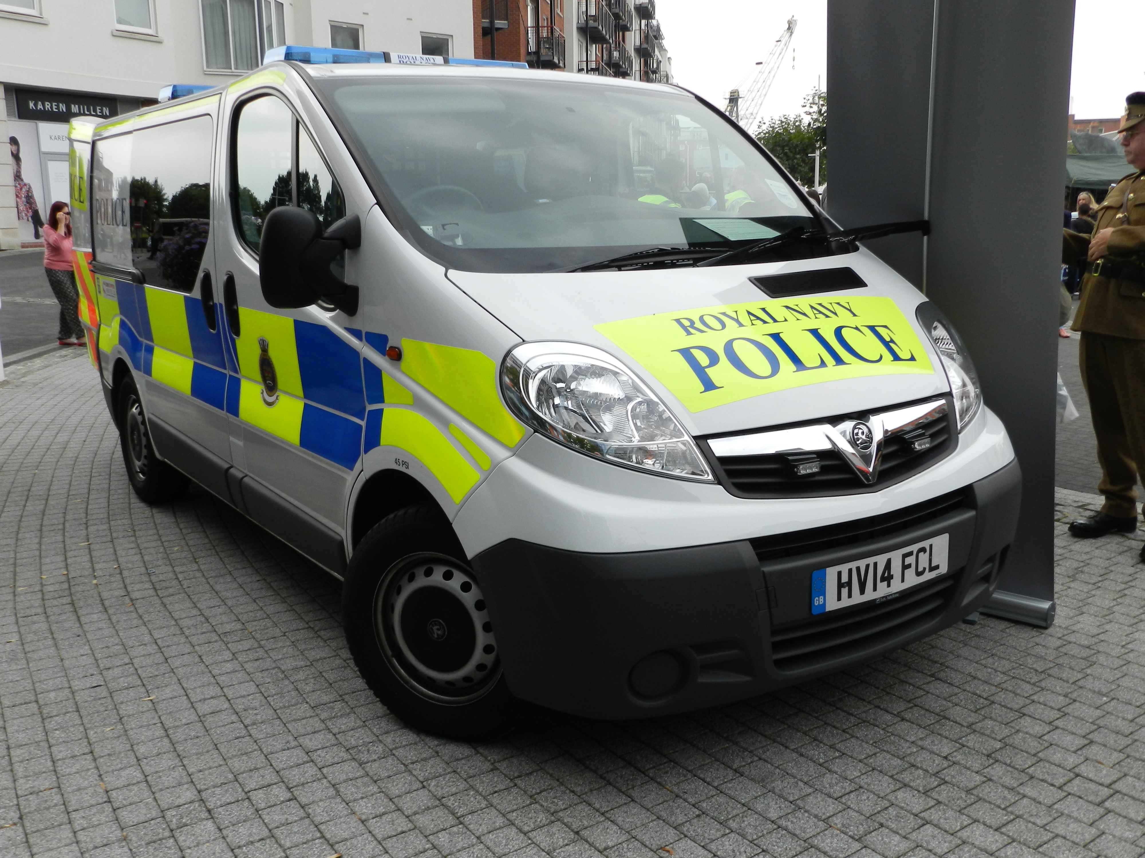 Policing Through The Ages, Gunwharf Quays Portsmouth